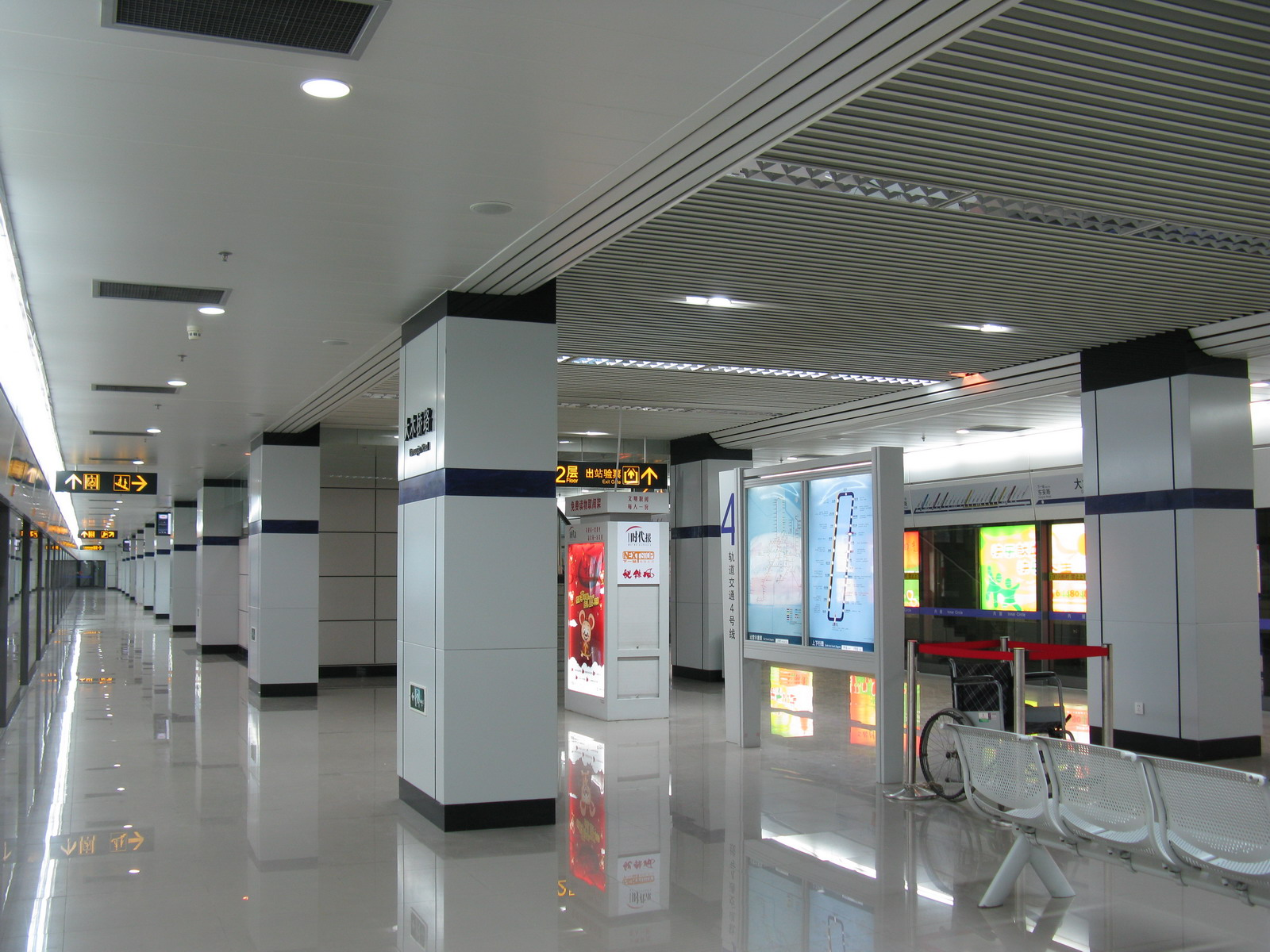 大木桥路站 4号线月台 Line 4 Platform of Damuqiao Road Station